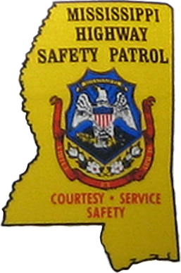 MHSP.